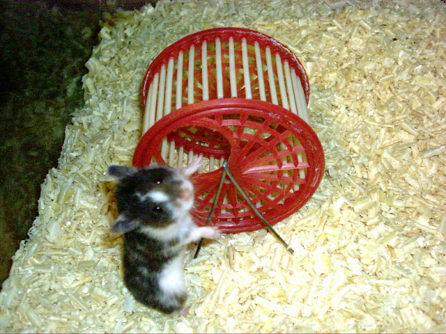 A hamster and a hamster wheel